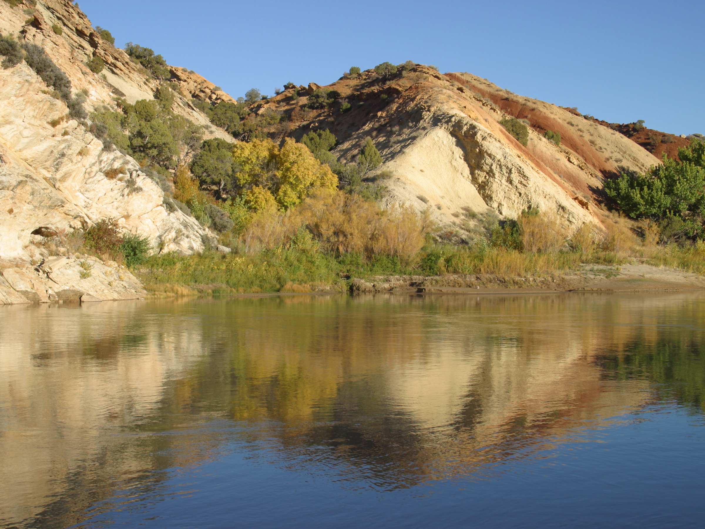 A view along Green River, near Split Mountain Campground in Dinosaur National Monument.